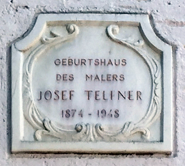 Memorial plaque, Josef Telfner, Vicolo Steinach 4, Meran, Italien